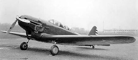 Consolidated P-30A with turbosupercharger visible